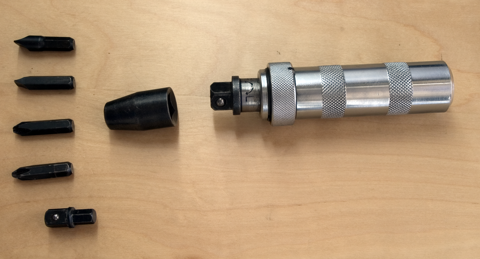 A generic impact driver with four screwdriver bits and adapters.